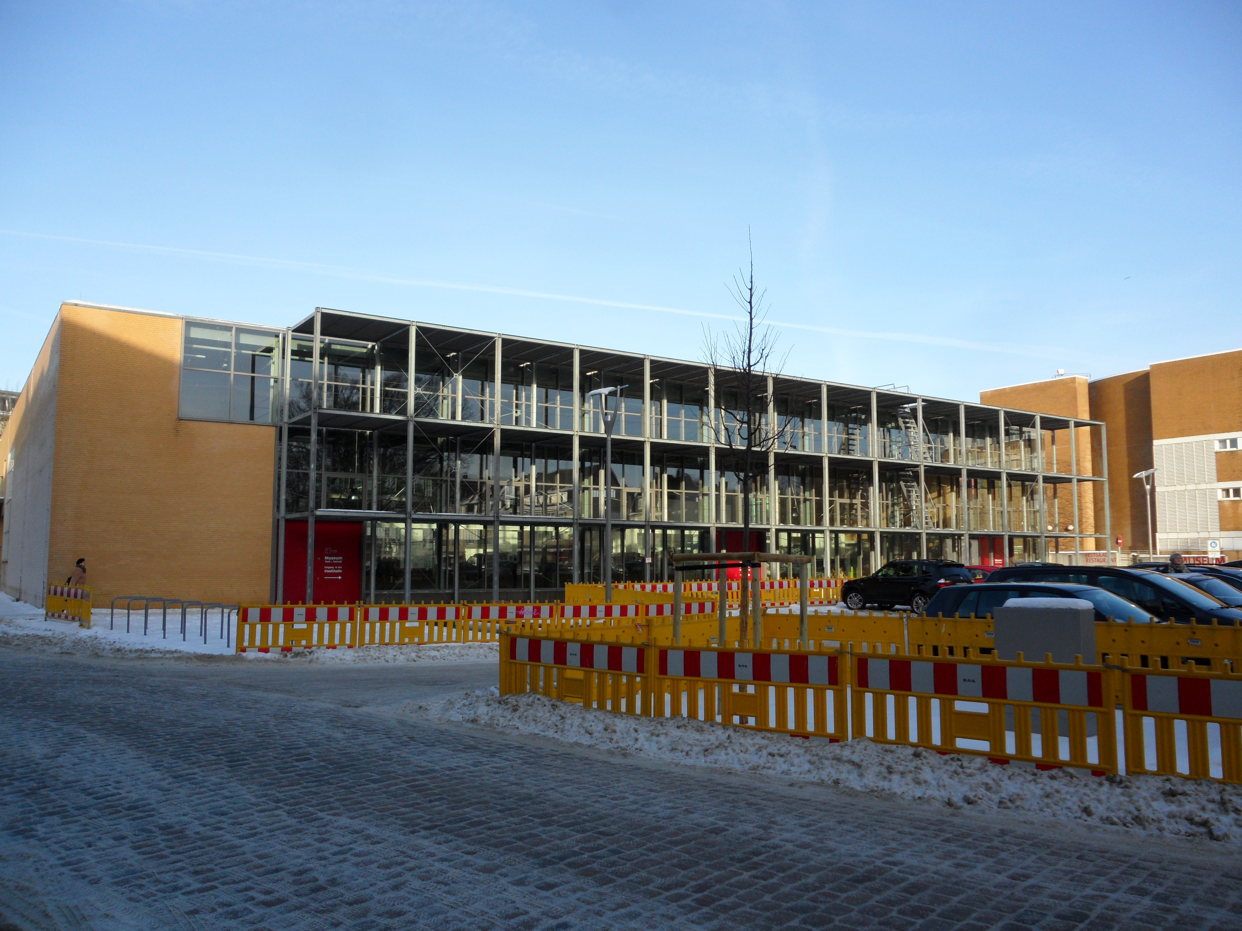 The 'Tuch und Technik Textilmuseum' in Neumünster from Kleinflecken